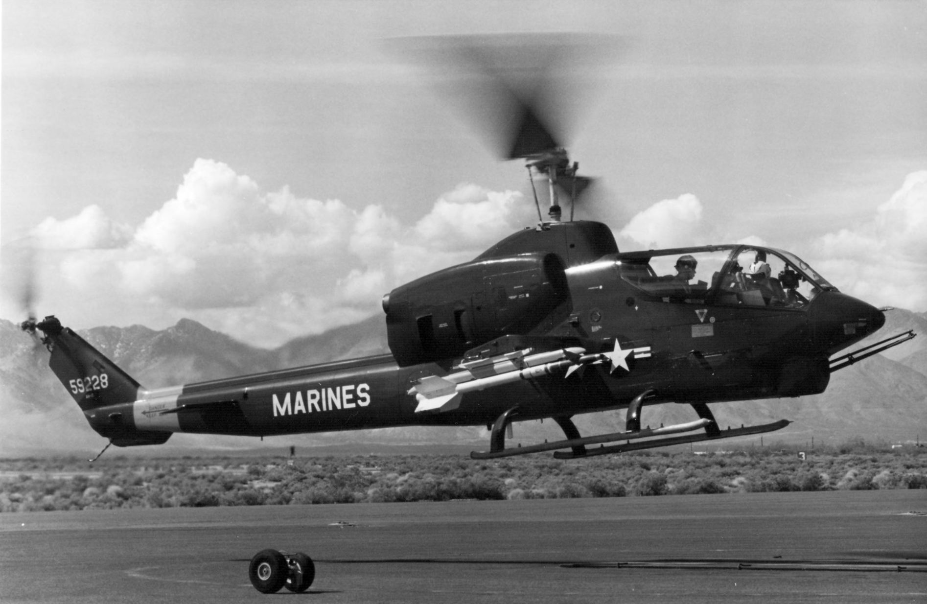 A U.S. Marine Corps Bell AH-1J SeaCobra (BuNo 159228) taking off from Naval Weapons Center China Lake, California (USA), loaded with an AIM-9L Sidewinder missile, 18 March 1980.